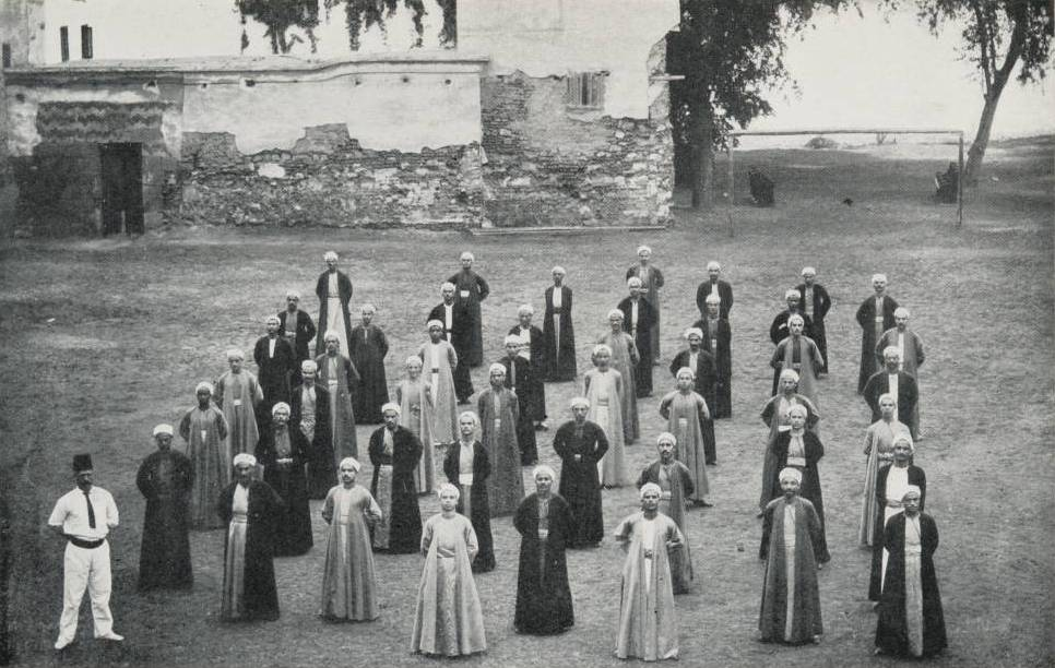 “A CLASS OF CHEIKS”. A large group of men in robes stand in rows in a courtyard.